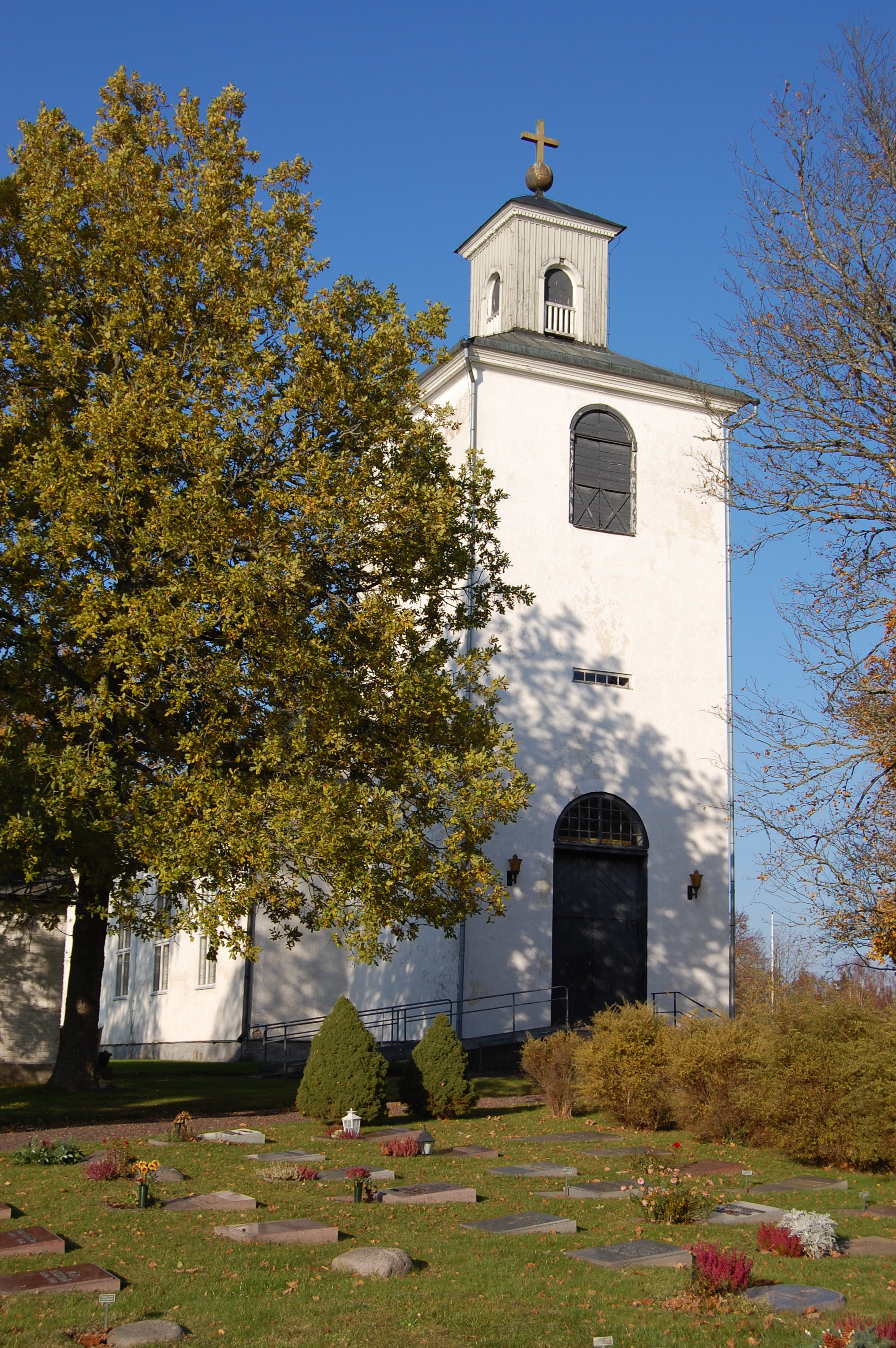 Ekeberga Church.The church was built of wood 1824-1826 in neoclassical style, designed by Johan Christian Seren.